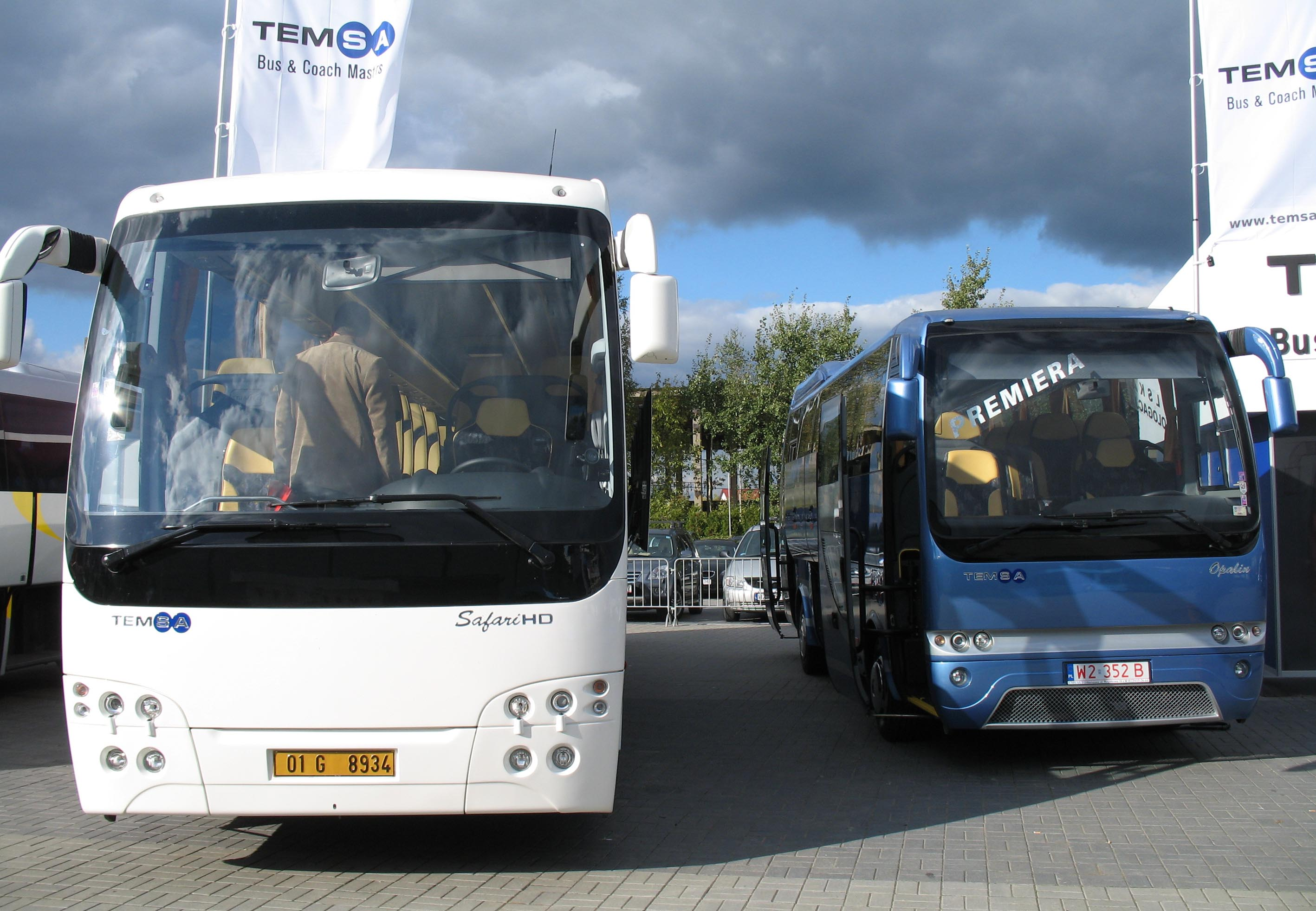 From left to right: Temsa Safari HD coach (reg. 01 G 8934, built 2007) and Temsa Opalin bus in Kielce, Poland. Transexpo 2007.